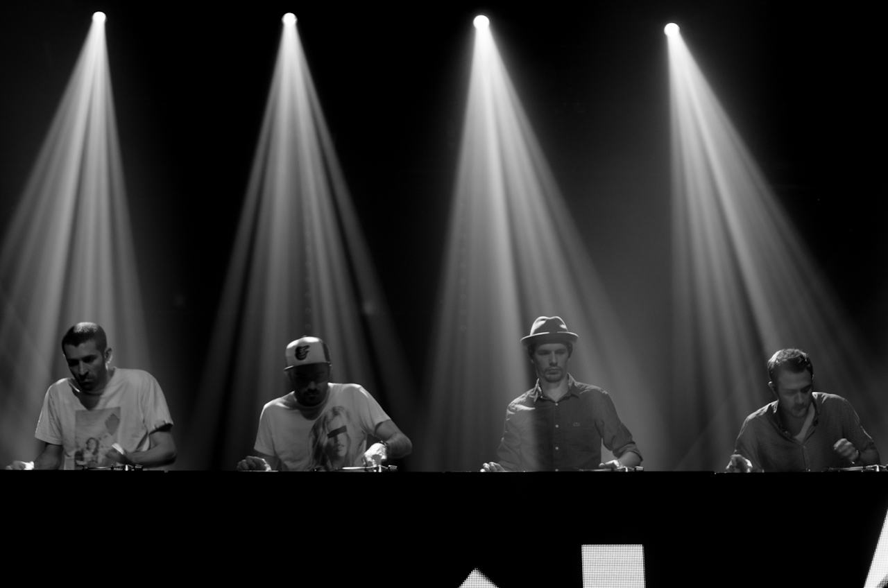 C2C in Angers, France, 2012.